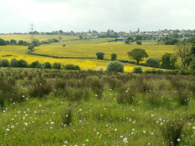 Between Lee Lane and Notton Woods Lee Lane can be seen left hand quarter by the top tree line. The houses on the skyline are by the side of the A61.